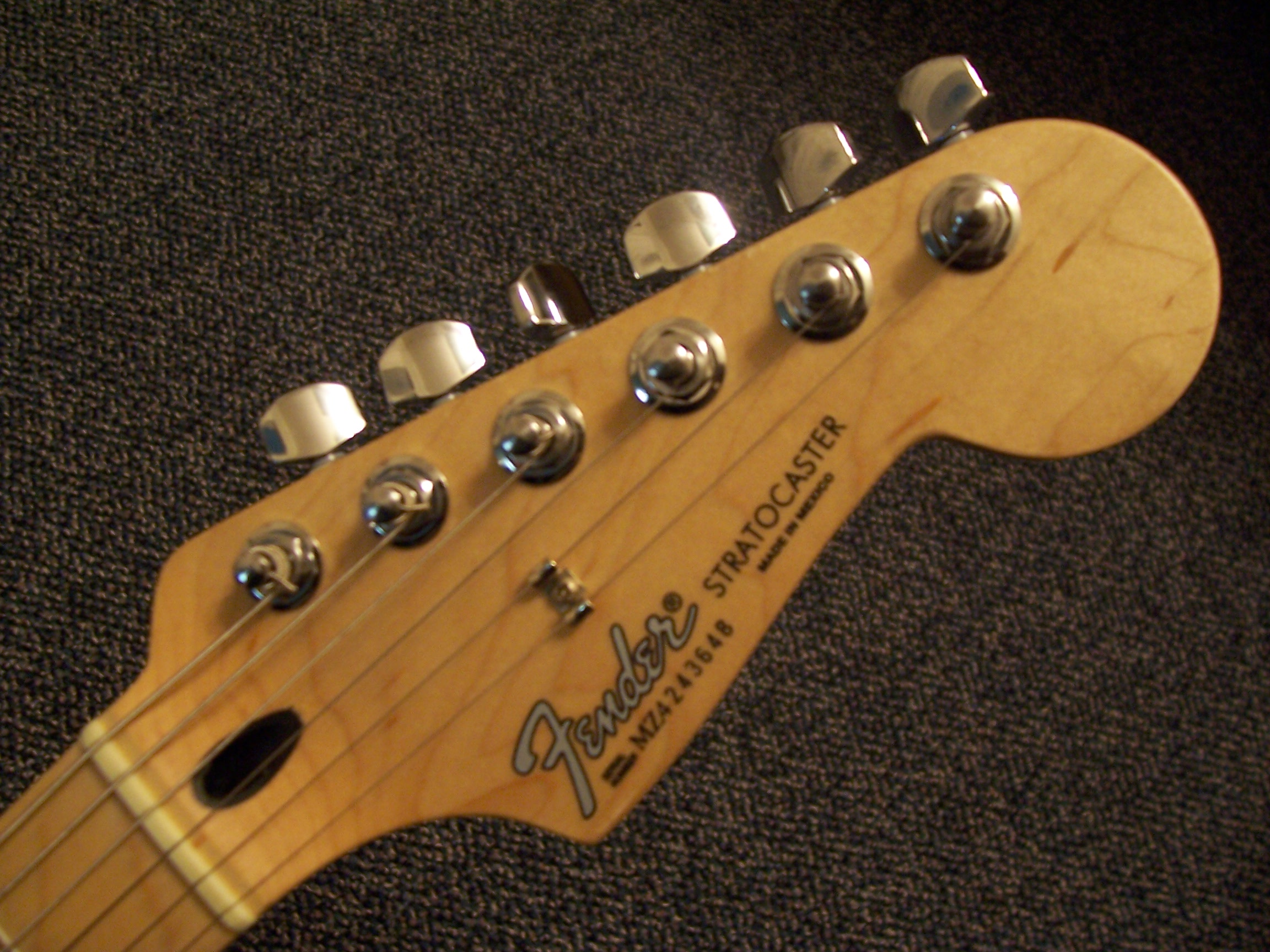 The headstock shape of the Stratocaster is trademarked.